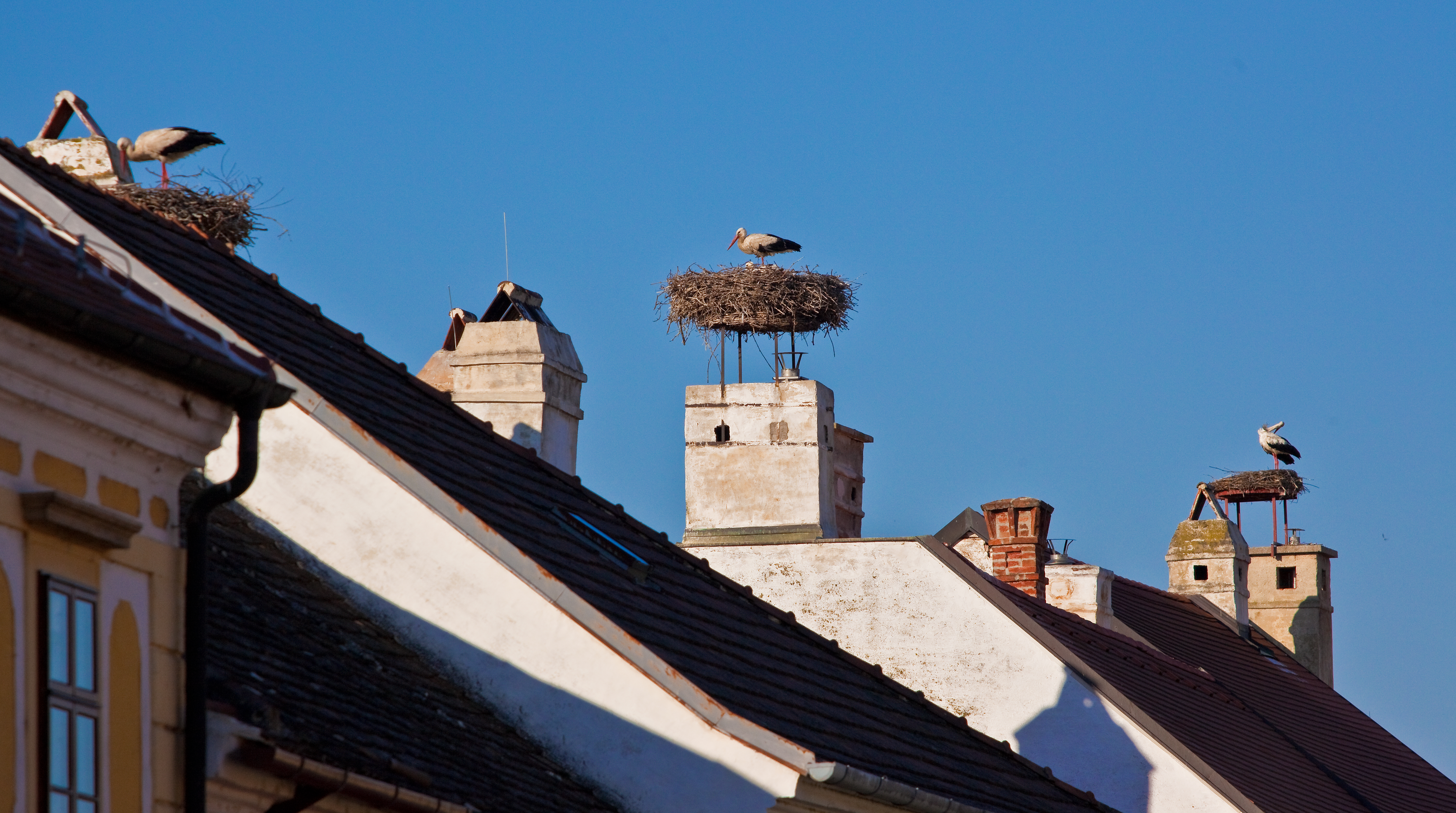 Rust Burgenland